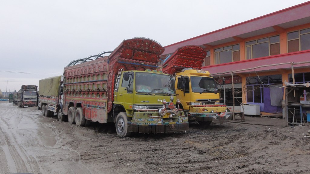 Common long distant delivery trucks in northern Afghanistan.